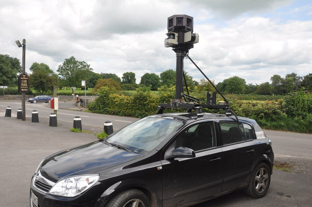 Google street view camera visits Peak District Having popped in to the Dog and Partridge at Thorpe (near Dovedale) for refreshment, we spotted the Google Street View camera car parked up in the car park. Does it snap the sheep and cows over the hedges? Anyway - tit for tat!